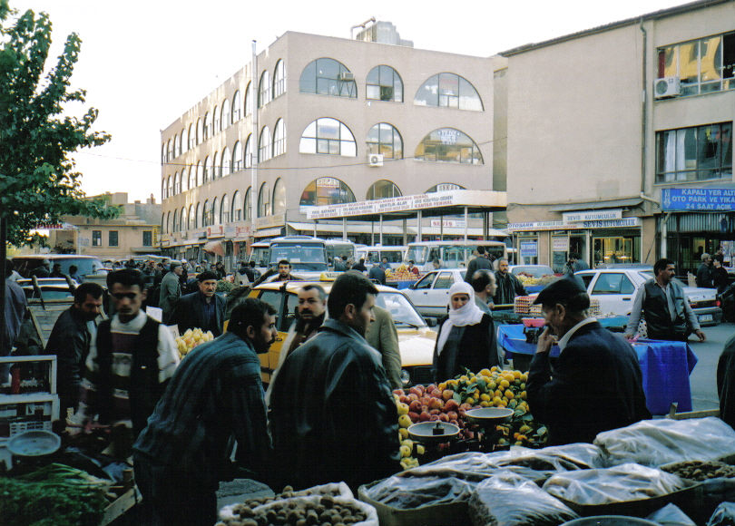 A street market in the old town of Diyarbakir, Turkey. (C) 2003, Gerry Lynch